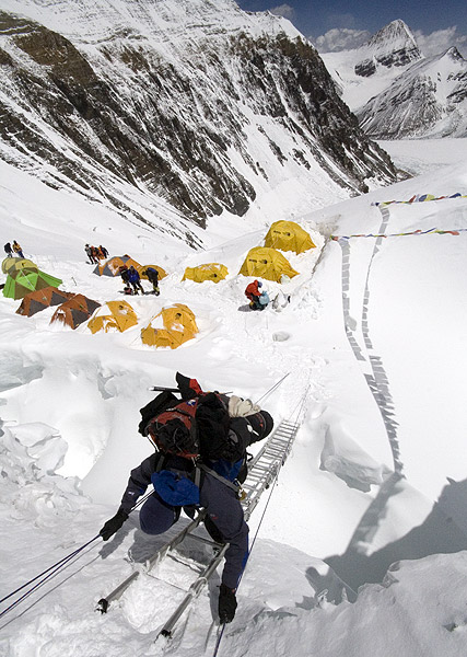 Climbing ladder on northcol - Everest Peace Project (Everest: A Climb for Peace)